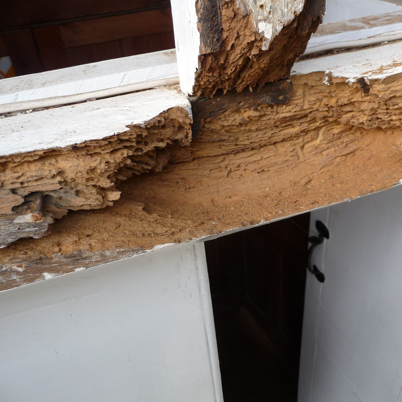 Survey of a cill at the Friends' Meeting House, Ifield, West Sussex, before work in 2010 began.